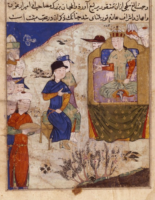 Audience with Möngke. Tarikh-i Jahangushay-i Juvaini